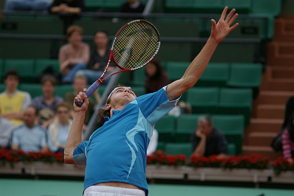 Gilles Simon with long hair